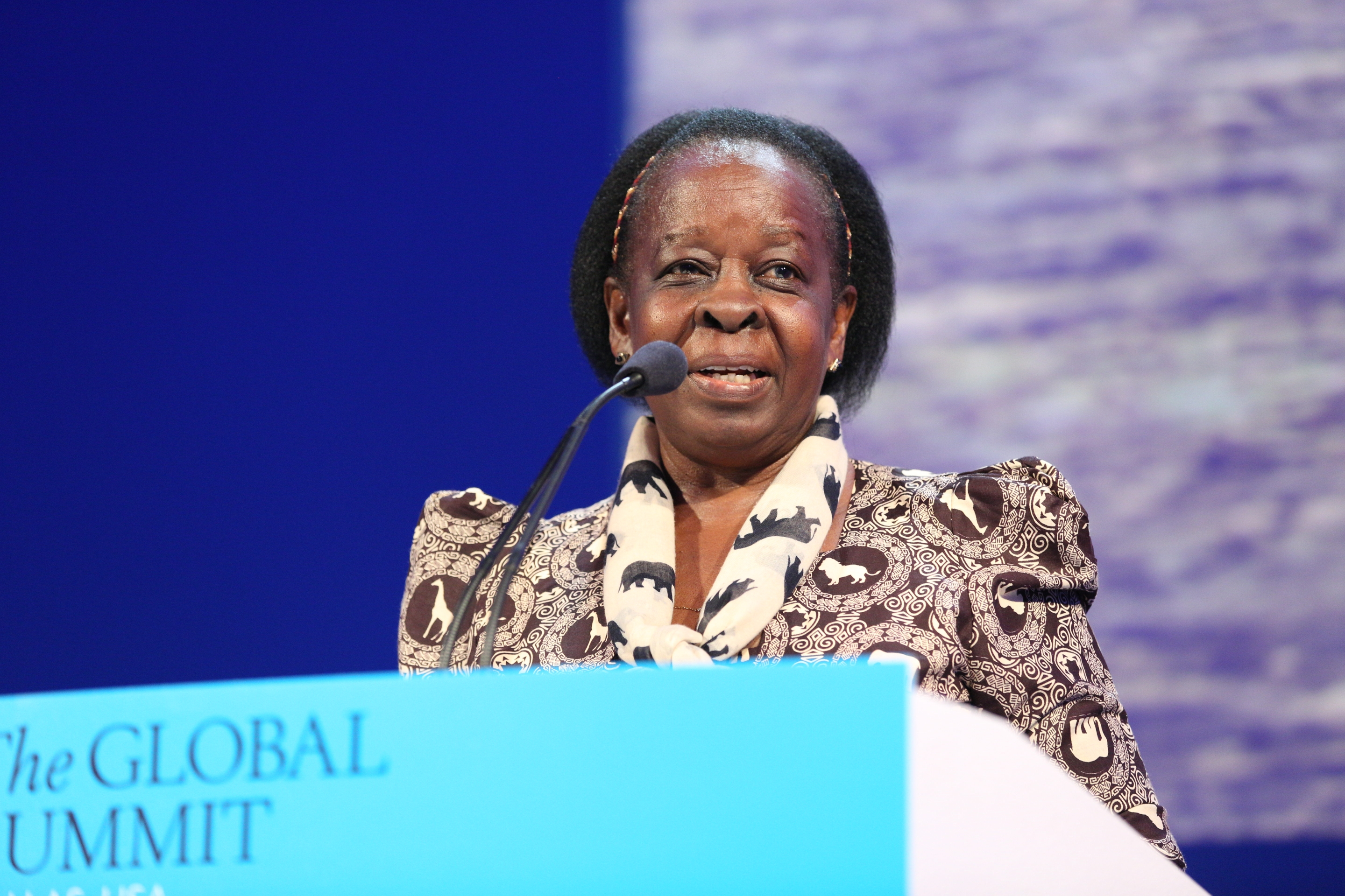 WTTC Global Summit 2016 World Travel & Tourism Council Flickr images